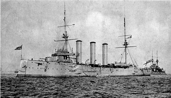 The British armoured cruiser HMS Monmouth, sunk at the Battle of Coronel, 1 November 1914. Postcard, presumably pre-war